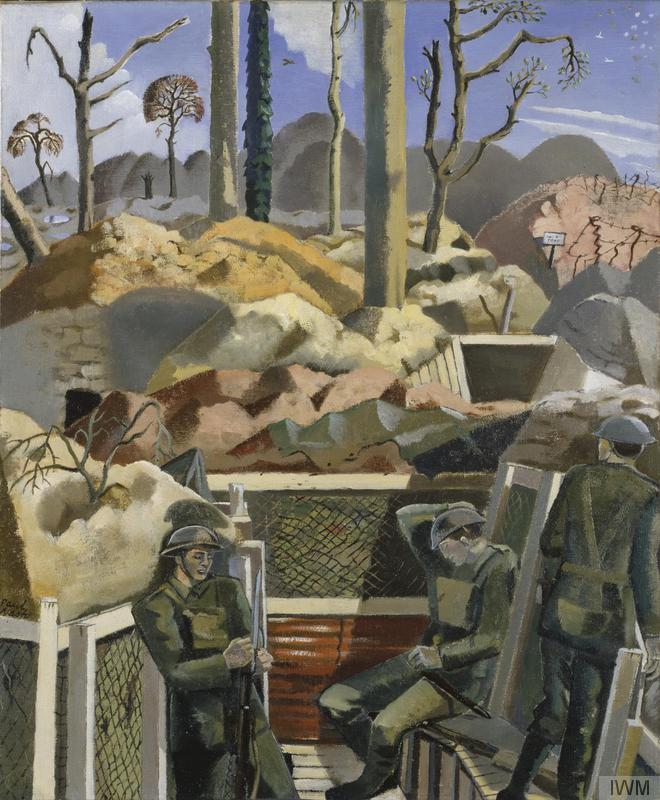 Three British soldiers in a World War One trench with a grove of trees and hills in the background.